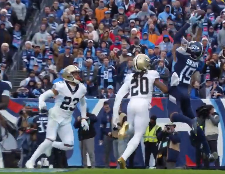 Janoris Jenkins and Marshon Lattimore. Image from video Tajae Sharpe Goes Up High for 4th Quarter TD | Touchdown Tuesday, ~ 00:08.